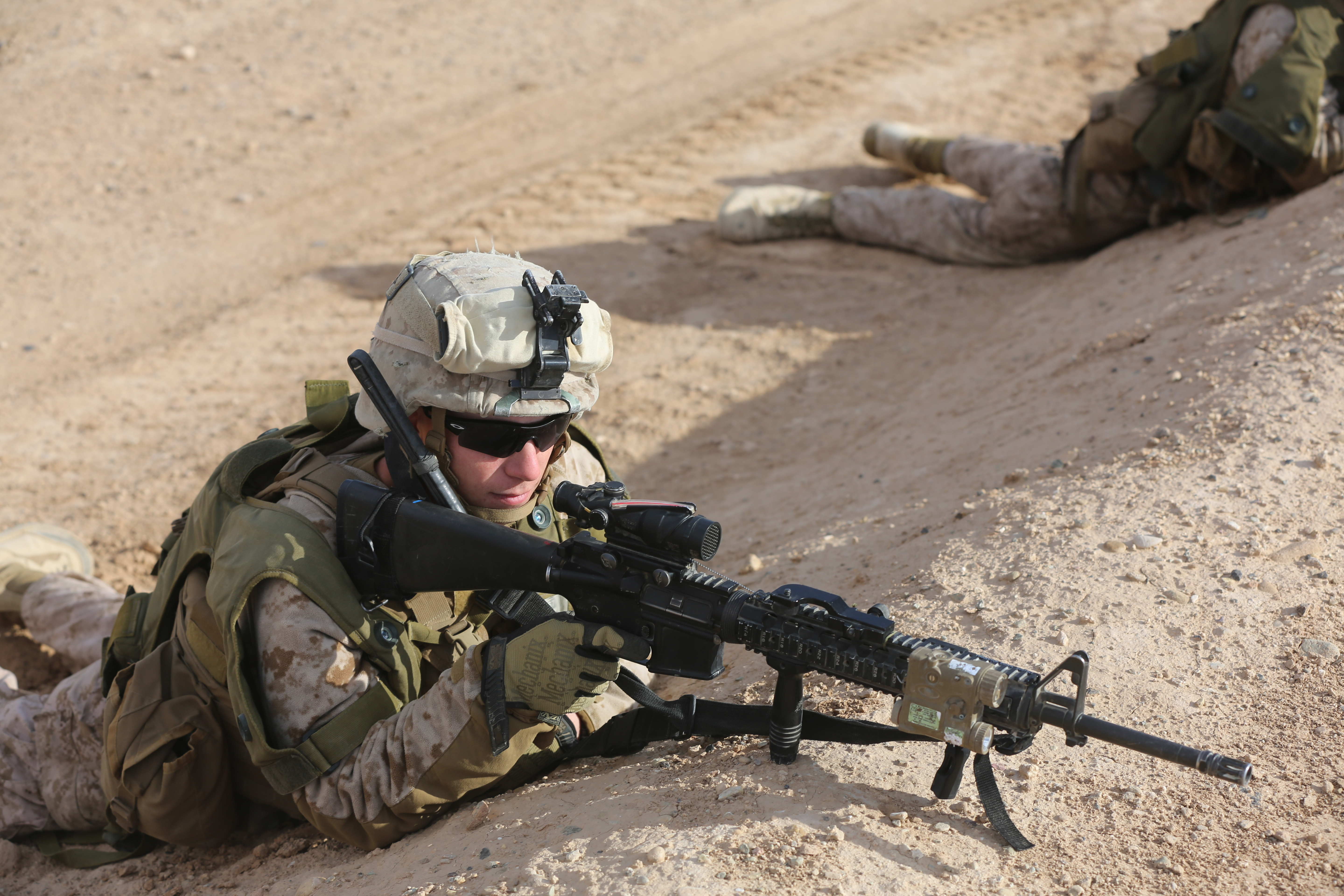 U.S. Marines with 1st Battalion, 9th Marine Regiment, conduct training on Camp Leatherneck, Helmand province, Afghanistan, Dec. 20, 2013. The training was performed to teach the Marines to properly mark improvised explosive devices during a patrol. (Official Marine Corps Photo by Lance Cpl. Zachery B. Martin/Released)